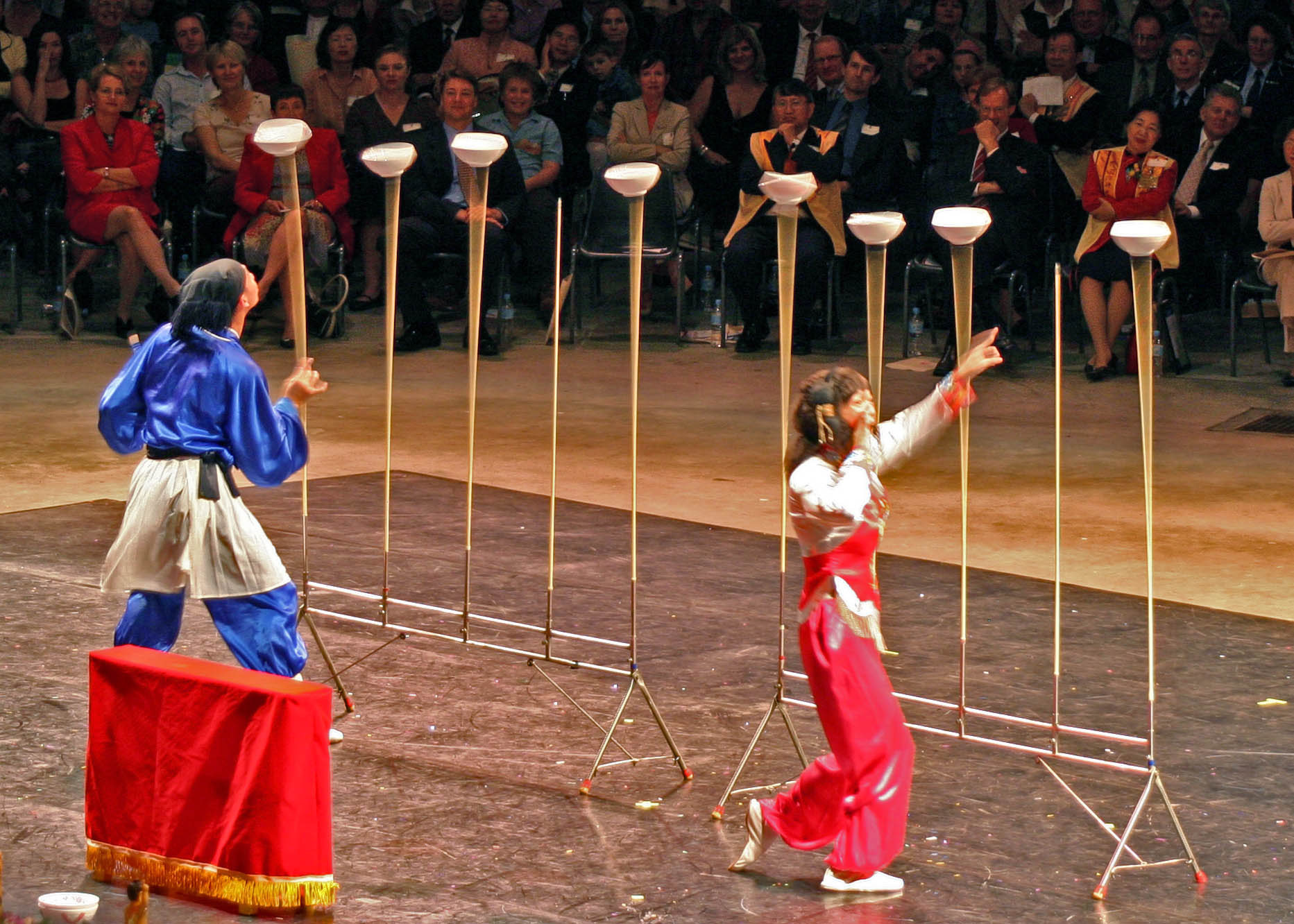 Plate spinning , Brisbane, Australia